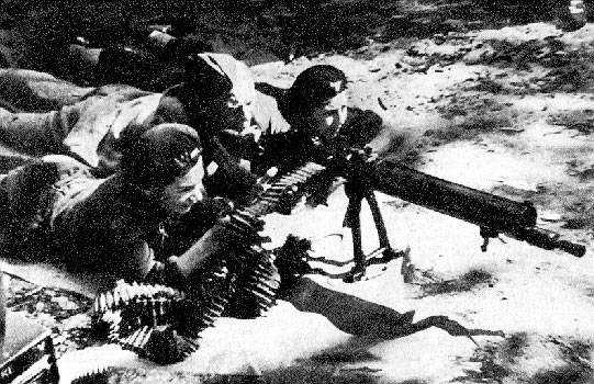 WarsawUprising: Teaching how to use Heavy machine gun MG 08/15 in the gardens by Mazowiecka Street.